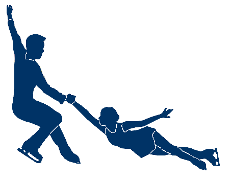 Death spiral Source: Helena Grigar (2005)